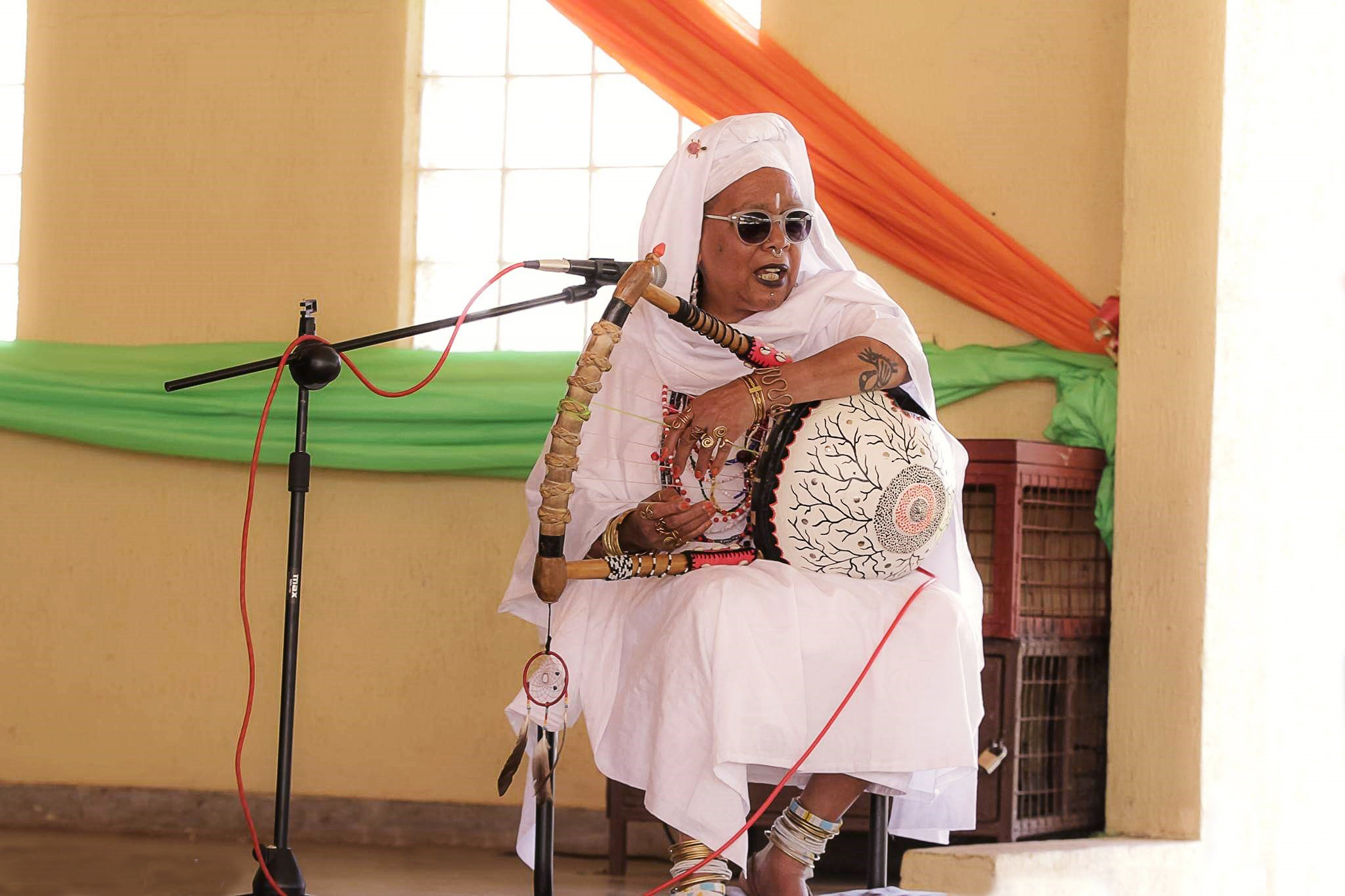 Traditional music in most of the continent is passed down orally (or aurally) and is not written. In African producing instruments include Nyatiti.This woman is playing Nyatiti during School Cultural day In Tanzania This is an image with the theme "Play" from: Tanzania